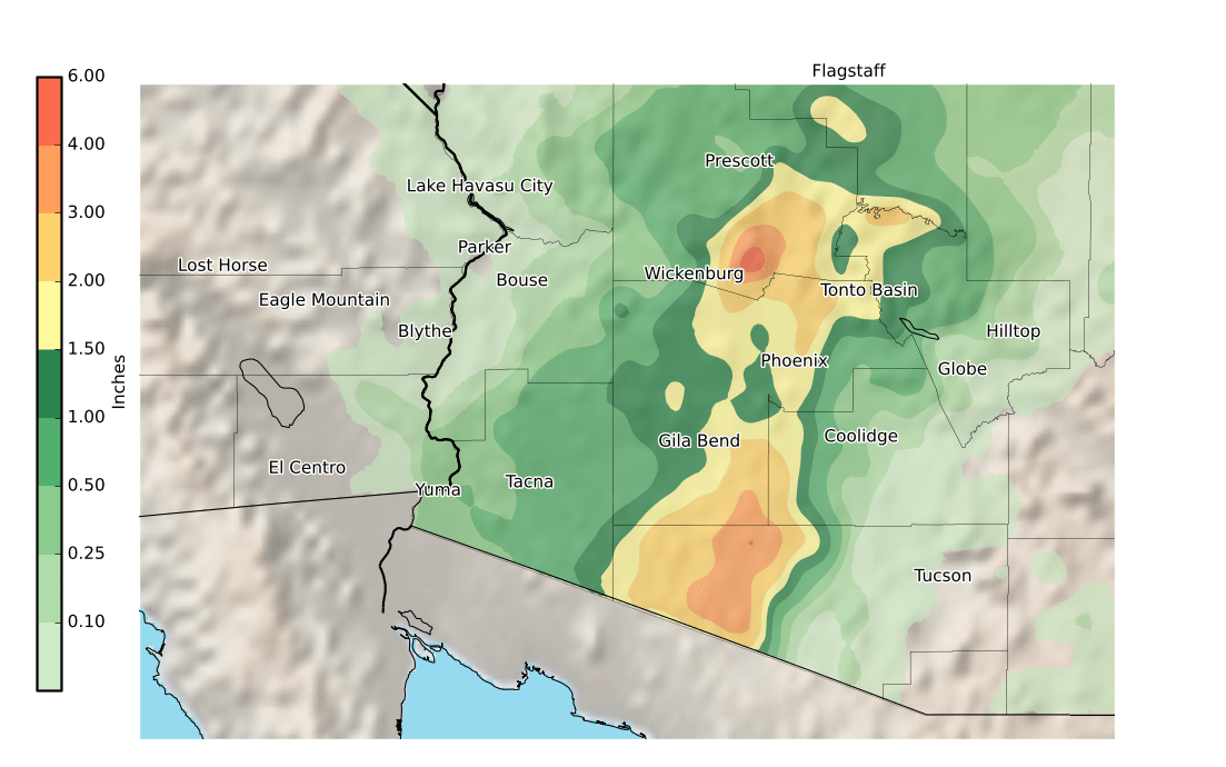 Rainfall from Hurricane Rosa on October 2, 2018